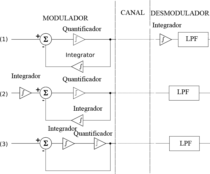 Sigma-Delta Modulatos